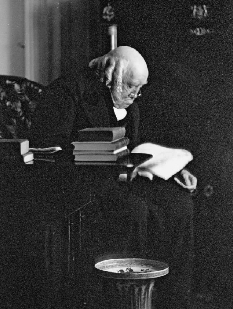 Samuel Appleton halfplate (fragment) ca 1850